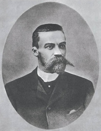 Кузнецов, Александр Григорьевич